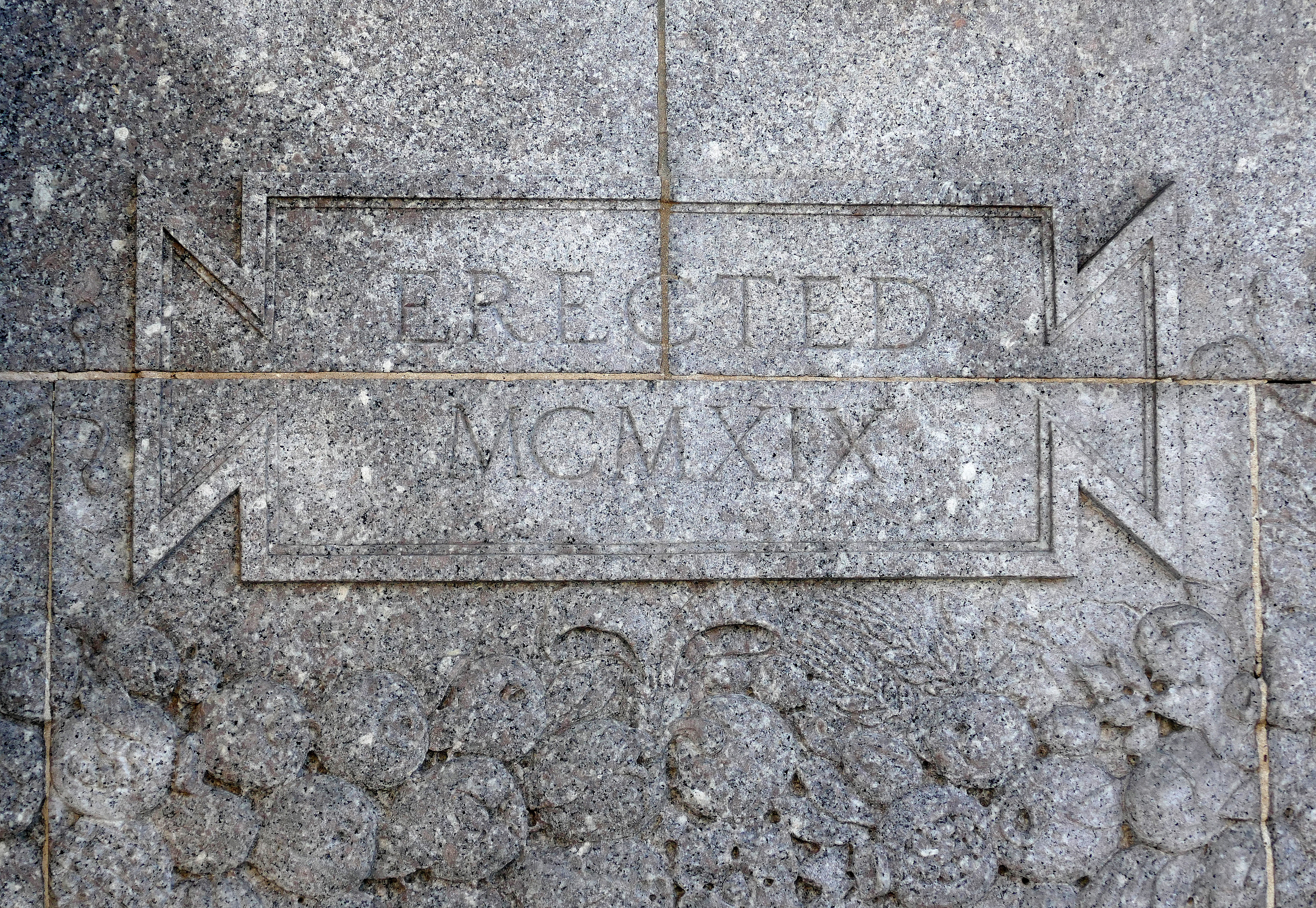 Organized in 1889 by W. L. Moody and Co., a private bank. City National Bank was later called the Moody National Bank.